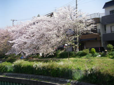 sakura in kumata